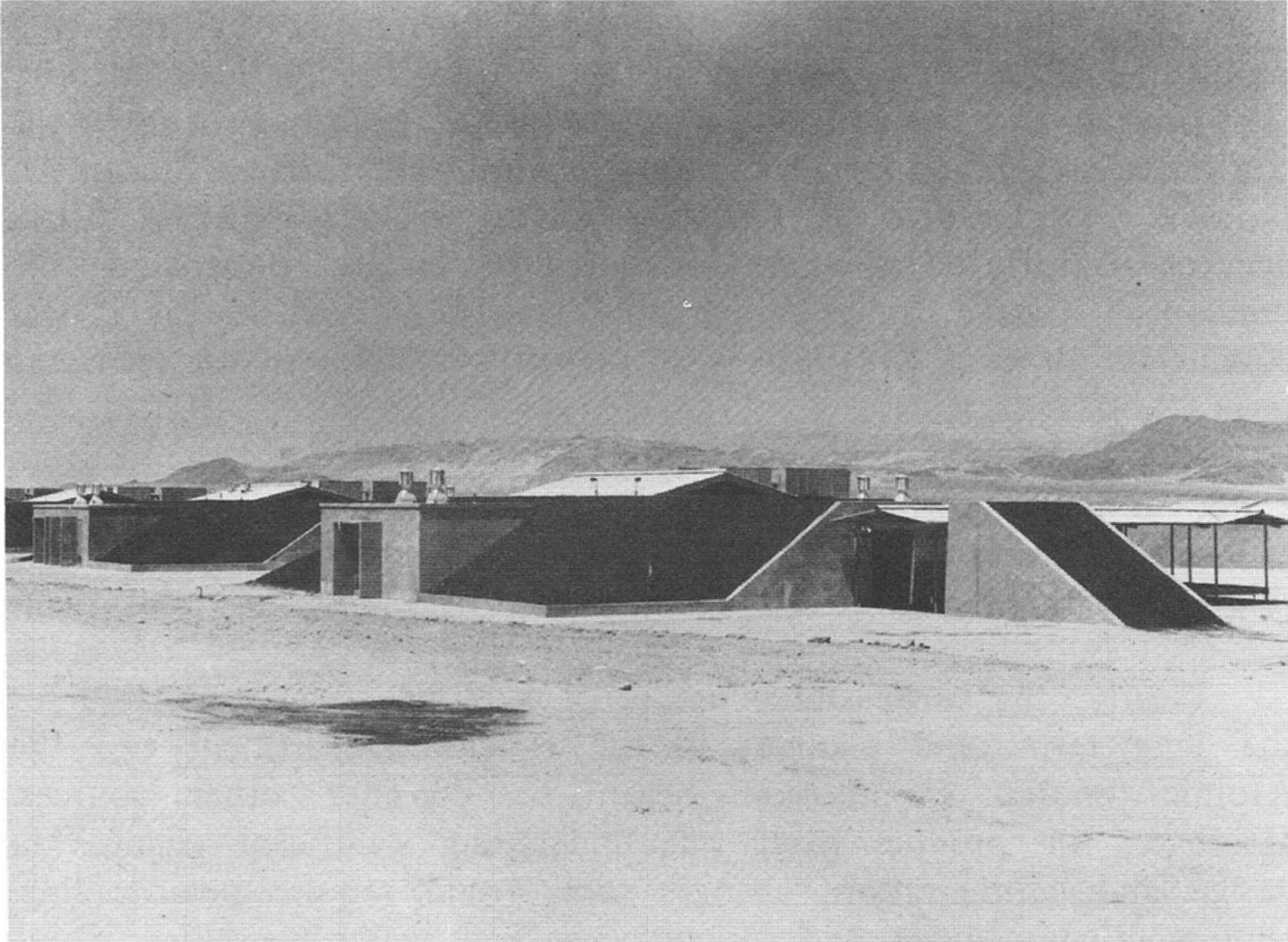 Salt Wells Pilot Plant. Explosives for atomic weapons were manufactured here from 1945 to 1954.